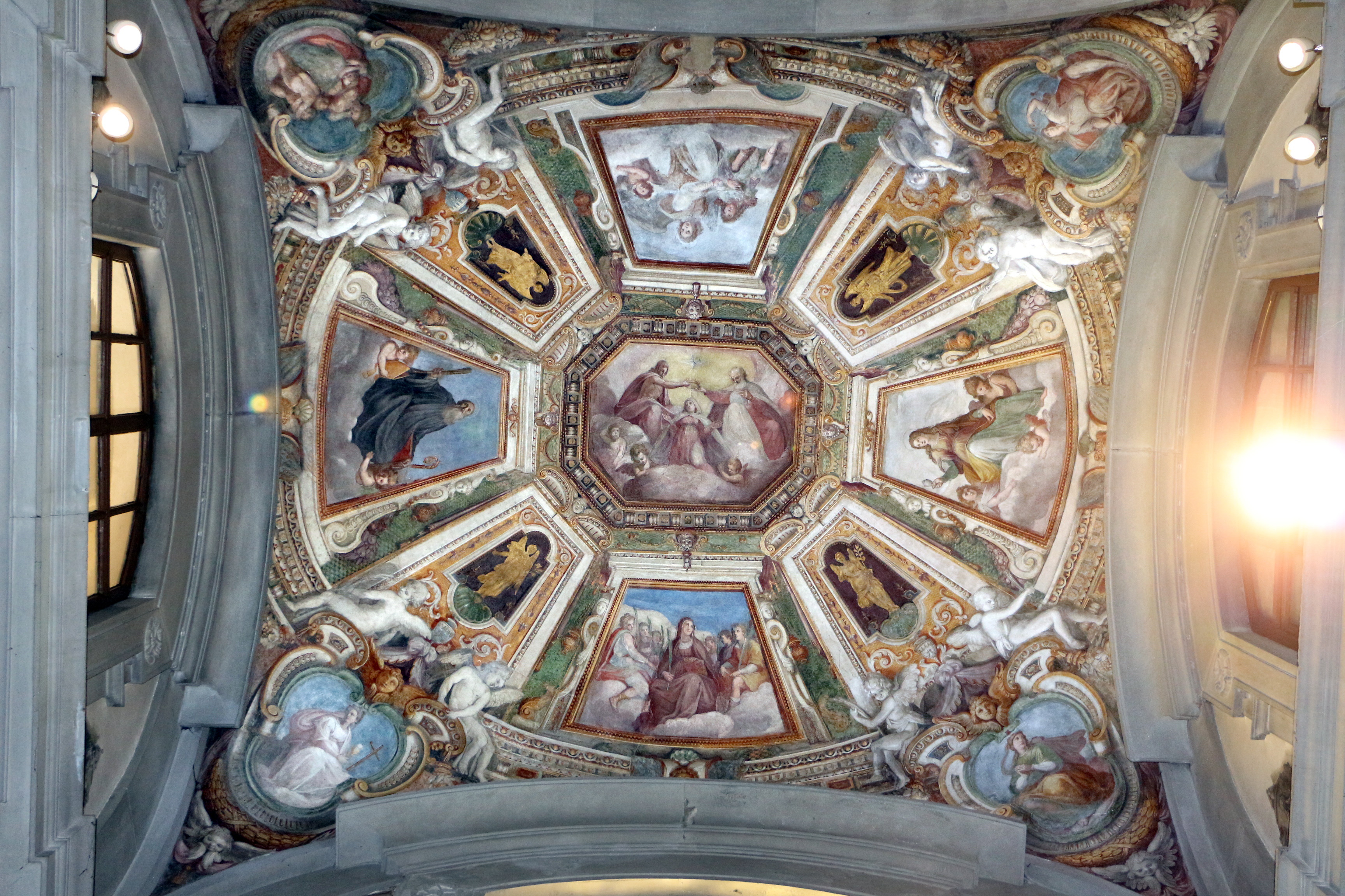 Santa Felicita (Florence) - Interior